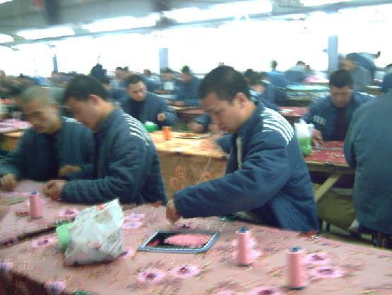 Workers in the Shayang Re-education Through Labor (Shayang Farm), a re-education through labor camp in Liaoning province. Photo part of the archives of the Laogai Museum (uused with permission of the Laogai Research Foundation, ).